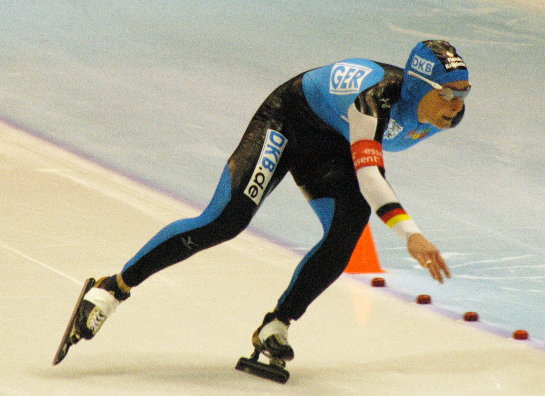 Claudia Pechstein (GER) at a world cup speedskating in Heerenveen, the Netherlands.